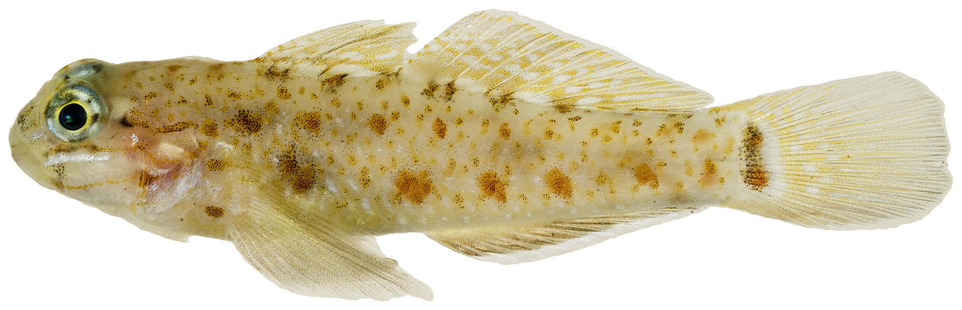 Coryphopterus dicrus Böhlke & Robins, 1960—colon goby, 31.8 mm SL. Photo by JT Williams.